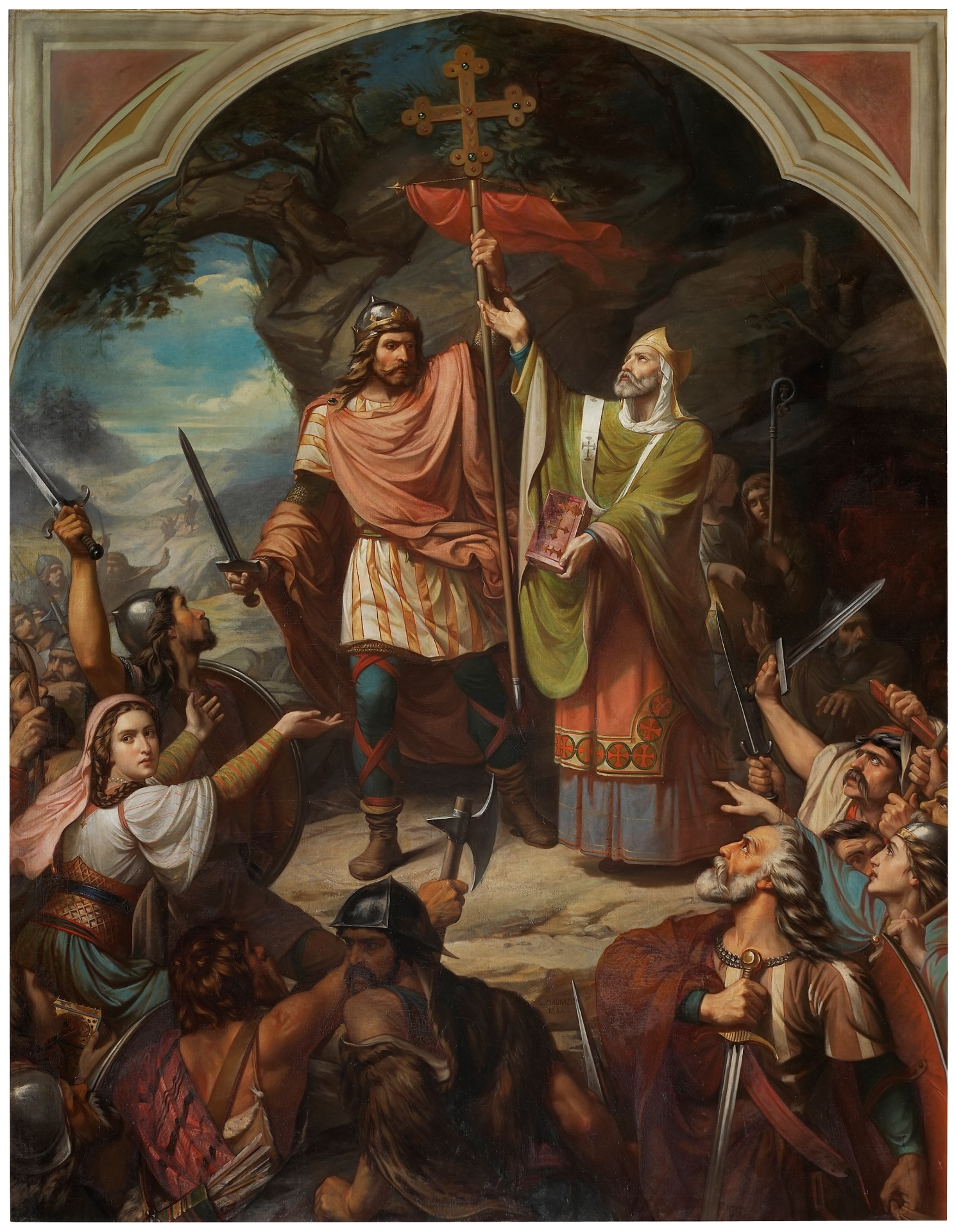 King Pelayo at the Battle of Covadonga